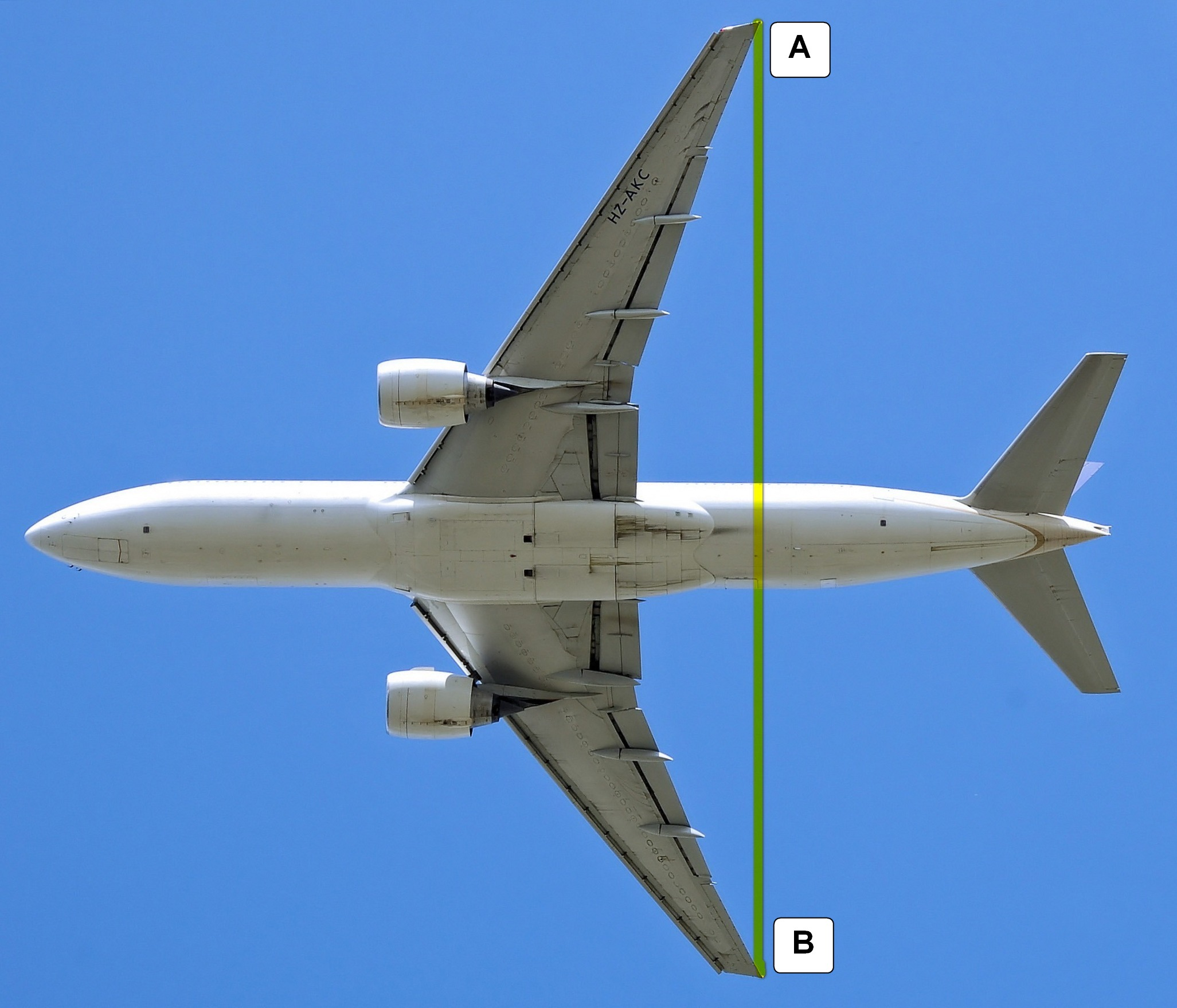 Saudi Arabian Airlines Boeing 777-200ER (HZ-AKC) departs London Heathrow Airport, England. The undercarriages have fully retracted.